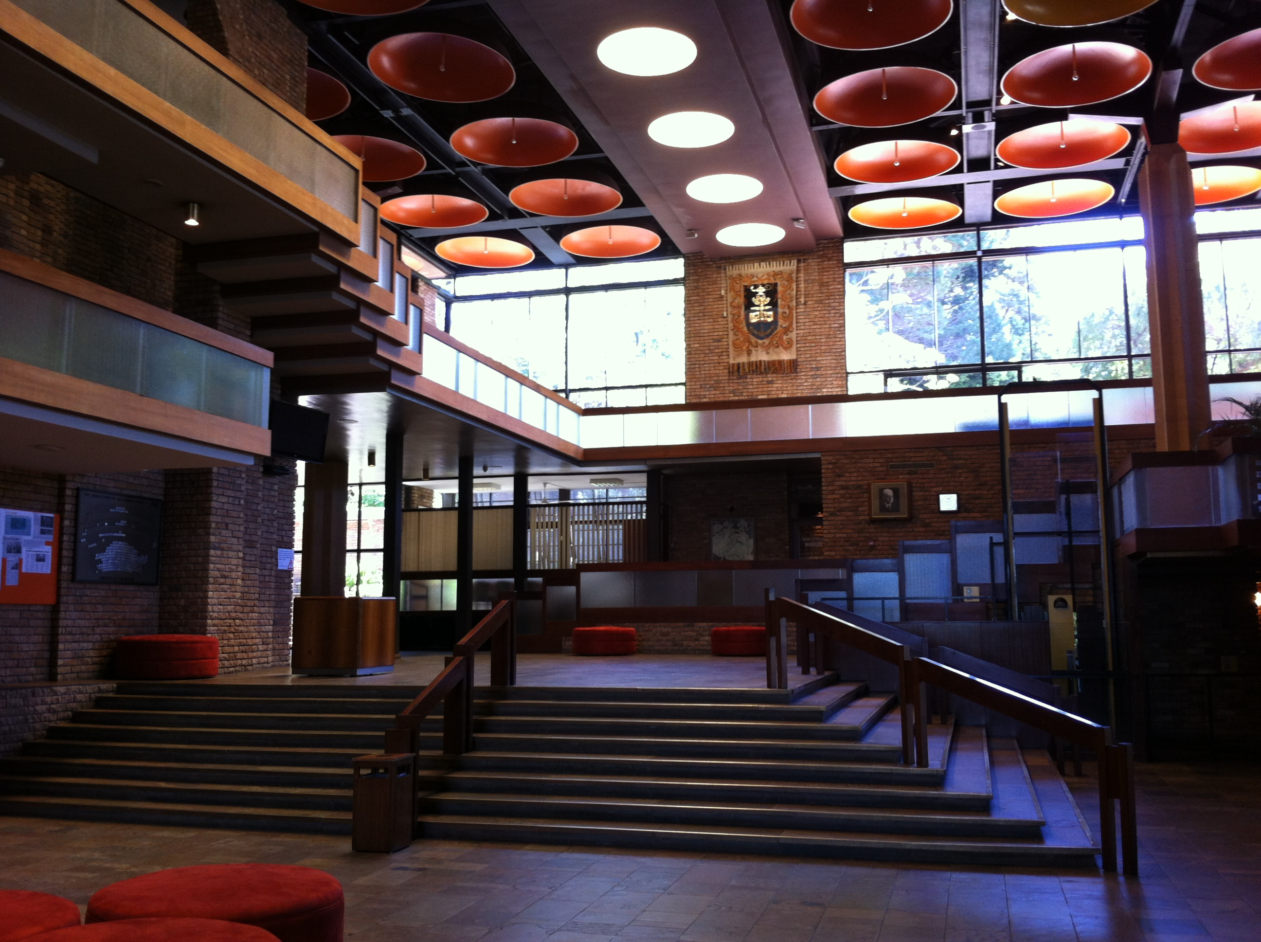 Interior av The Baxter theatre in Capetown